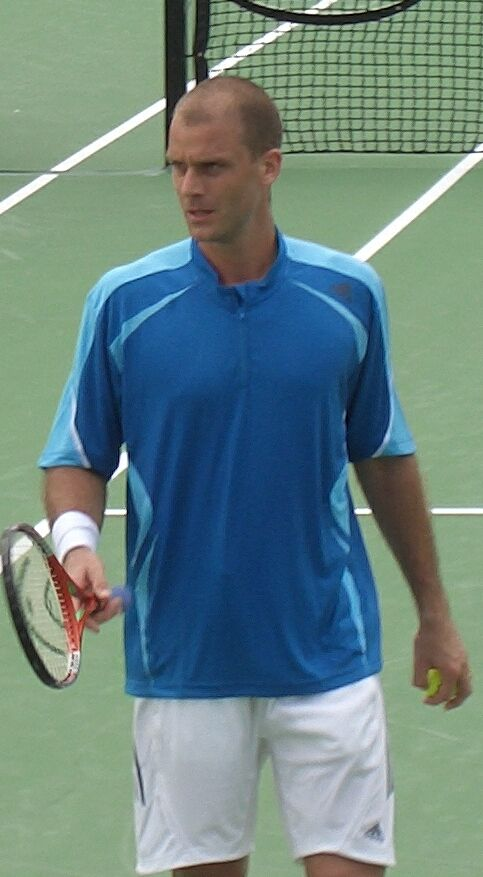 Cyril Saulnier during his first-round match of the 2006 Australian Open. He played Thomas Johansson. Saulnier lost.